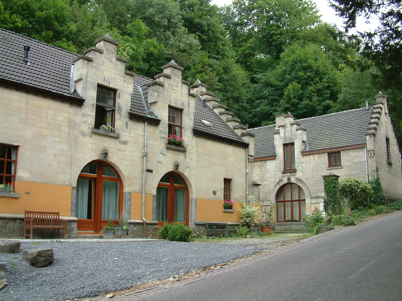 Geulzicht Castle, Geulhem near to Valkenburg, The Netherlands, former coach-house and coachmans house